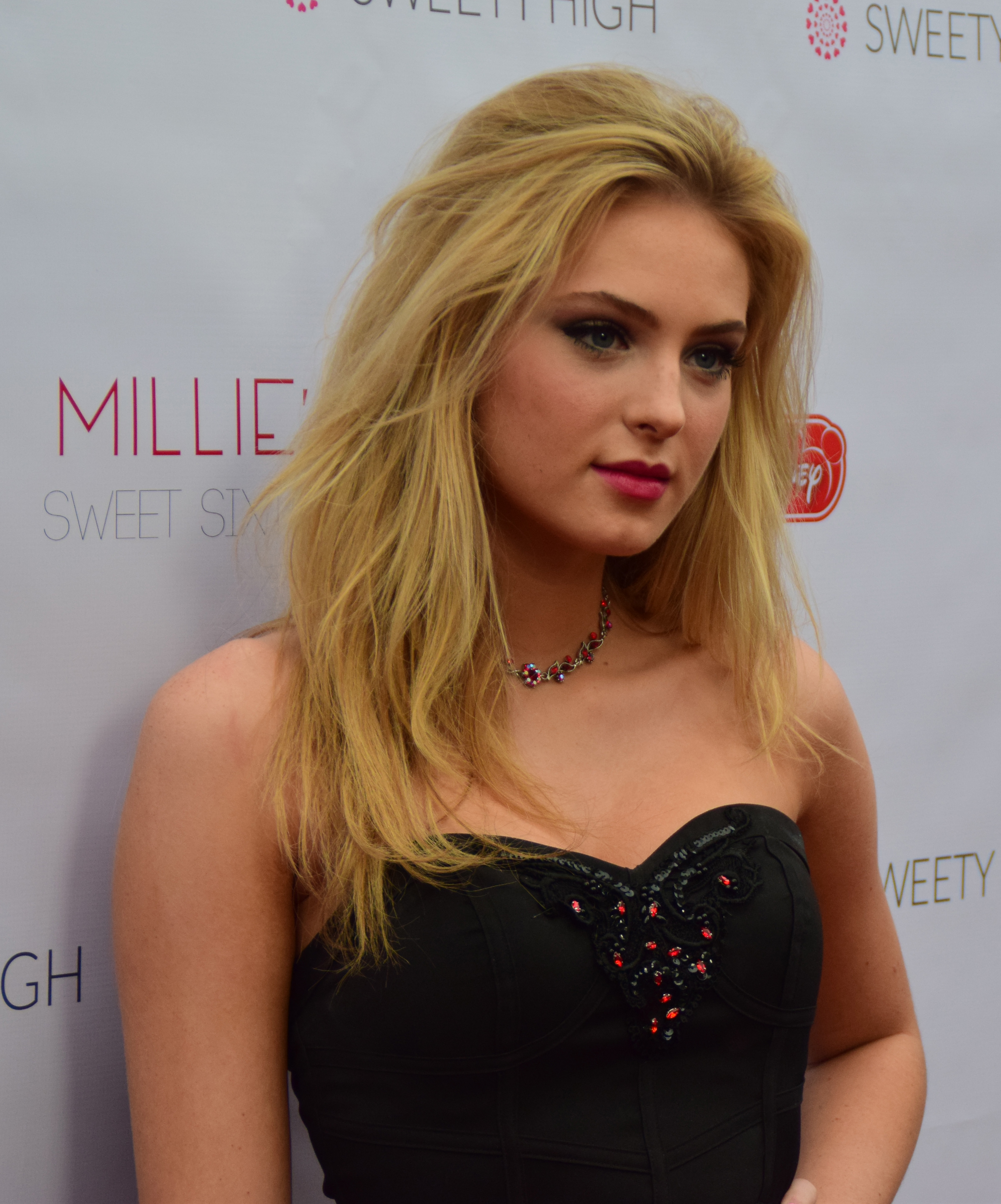 Mingle Media TV and our Red Carpet Report team with host, Denise Salcedo, were invited to come out to Sweet Suspense member Millie Thrasher's Sweet 16 Party with Radio Disney and her celebrity friends at the Hotel Sofitel in Hollywood. Get the Story from the Red Carpet Report Team, follow us on Twitter and Facebook at: About Sweet Suspense X Factor fan favorite girl group, Sweet Suspense, is an all-female pop power trio with Simon Cowell as their mentor off the hit series. Since 2013 the girls have been going full throttle proving that they are here to stay and are truly ready to be superstars. Since their time on The X Factor (they were in the top 12!) the girls have worked with some of the best producers in the business and have been busy recording new music and establishing themselves as positive role models for their fans. Fresh off premiering the music video for their single “Here We Go Again,” and being selected as one of the iHeart Radio Macy’s “Rising Stars,” Sweet Suspense recently released a music video for the female-empowering version of Max Schneider’s song “Gibberish.” Follow Millie on Twitter For more of Mingle Media TV’s Red Carpet Report coverage, please visit our website and follow us on Twitter and Facebook here: Follow our host, Denise Salcedo on Twitter at